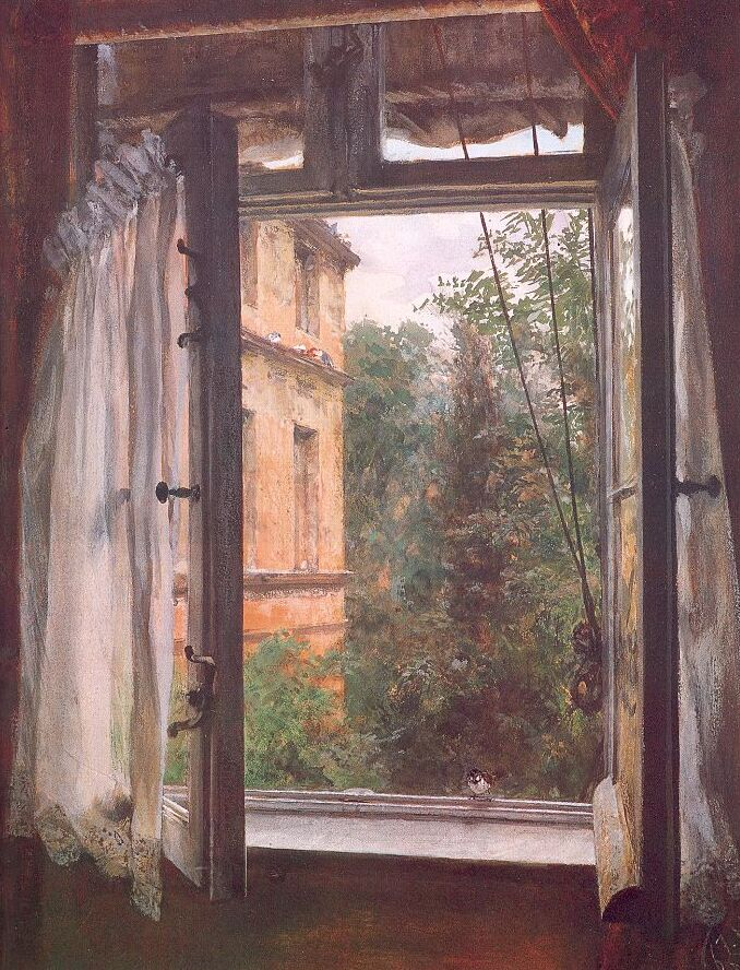 View from a Window in the Marienstrasse